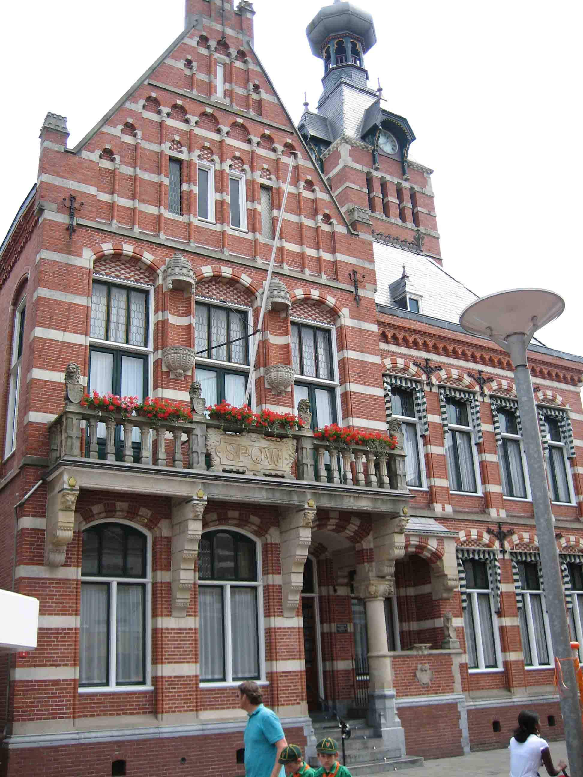 The former town hall of Winschoten was built after a model by Cornelis Peters